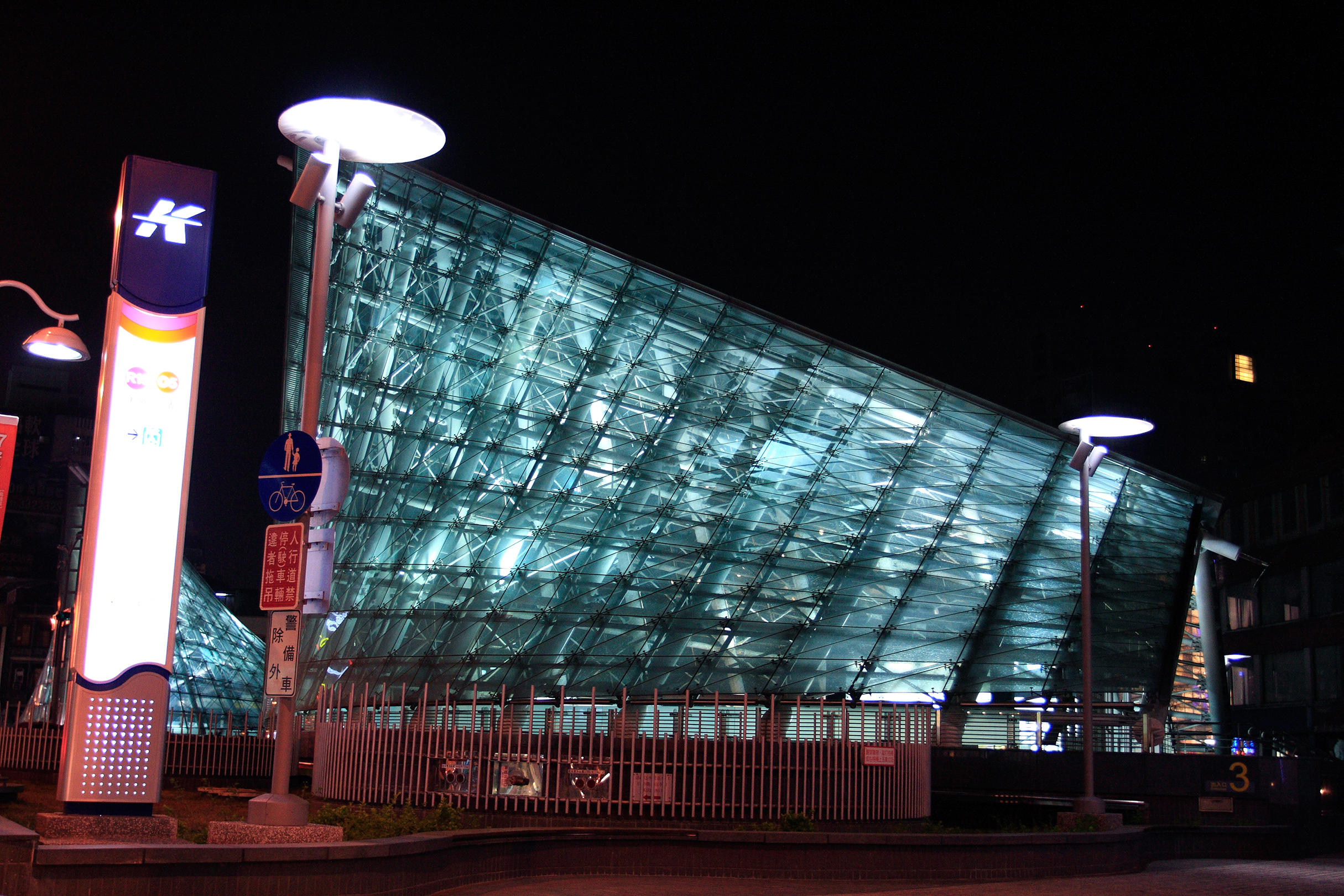 Kaohsiung MRT Formosa Boulevard Station